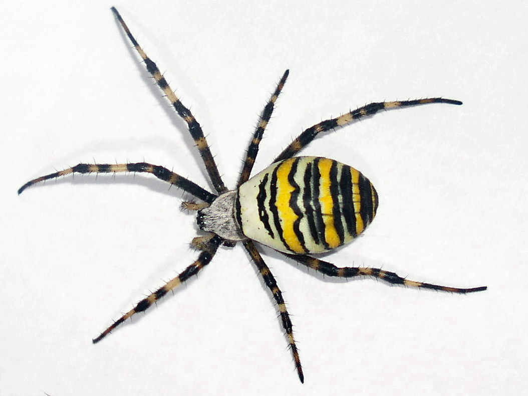 This picture used tu belong to me, I release it into the public domain, it is a beautifull spider, I have no idea about its name... Cette photo m'appartenait, je la mets dans le domaine public. C'est une araignée dont j'ignore le nom. Ajor933 12:21, 13 March 2007 (UTC) Actually, it seems to be an Argiope: see here: [1] Ajor933 15:29, 16 March 2007 (UTC) Argiope bruennichi -- Sarefo 14:36, 16 December 2007 (UTC)